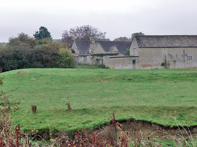 Ascott d'’Oyley, Ascott-under-Wychwood, Oxfordshire: remains of the earthworks of the motte-and-bailey castle (foreground) and part of the Manor House (background). The manor house is a mixture of 13th, 16th and 17th century phases of building.